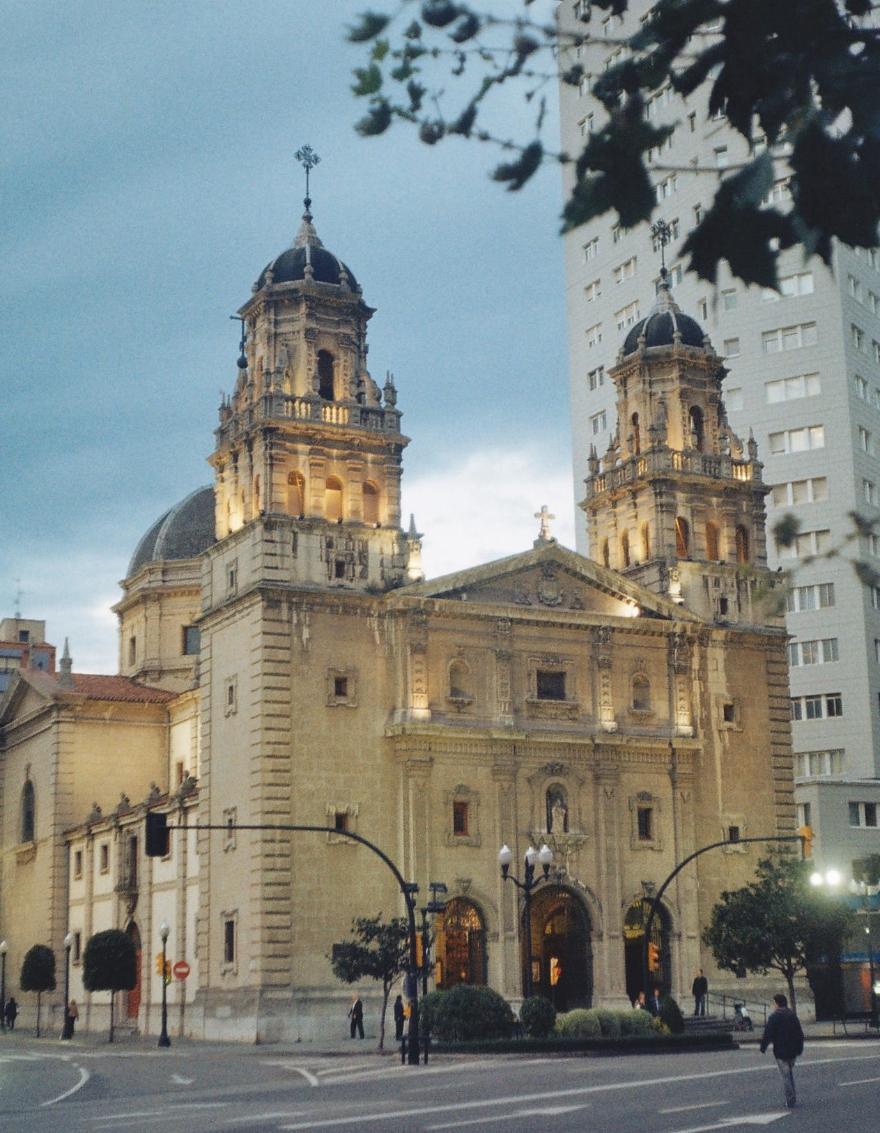 Church of Saint Joseph in Gijón (Spain).